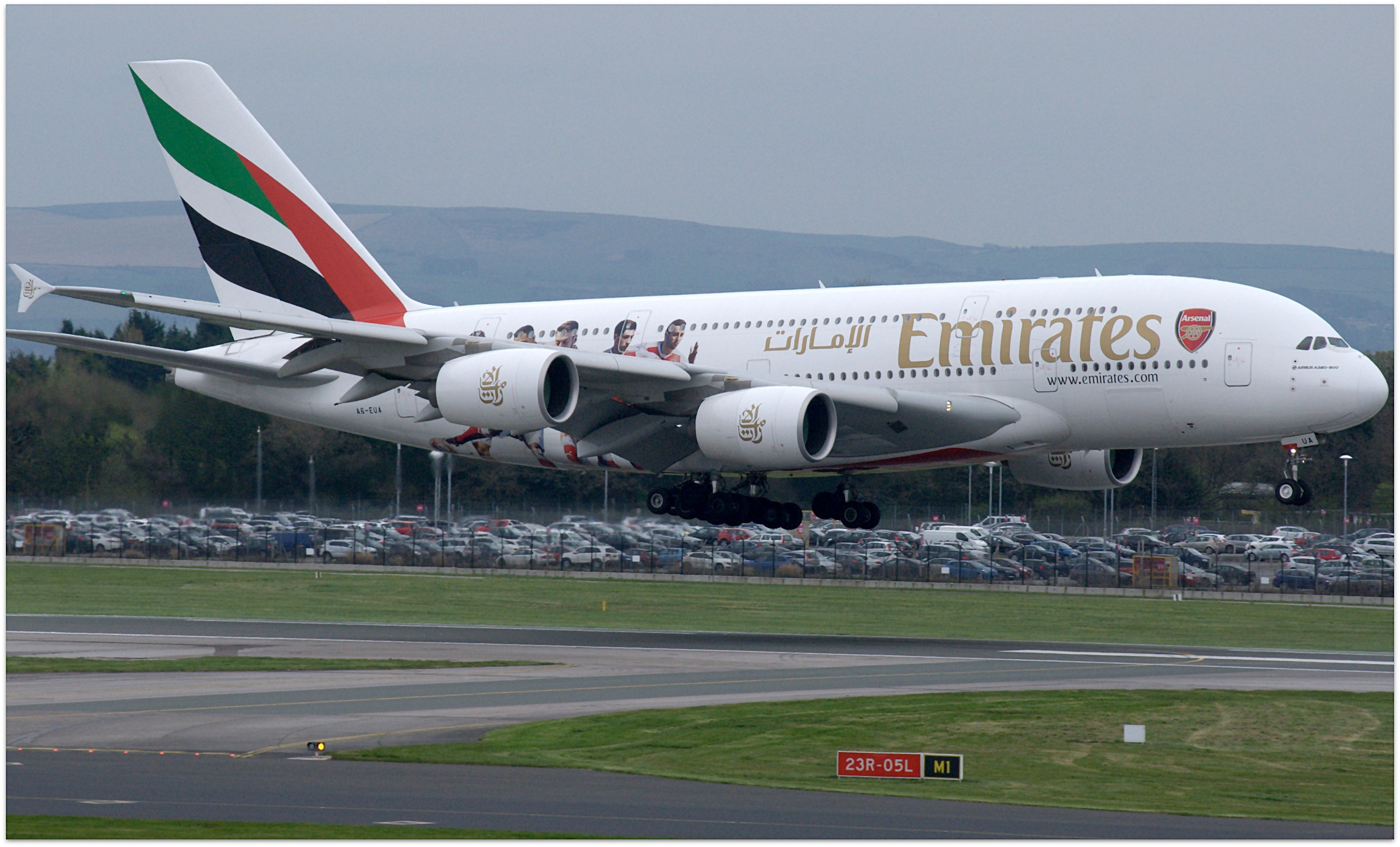 Emirates (Arsenal F.C. livery) Airbus A380-861 landing at Manchester Airport